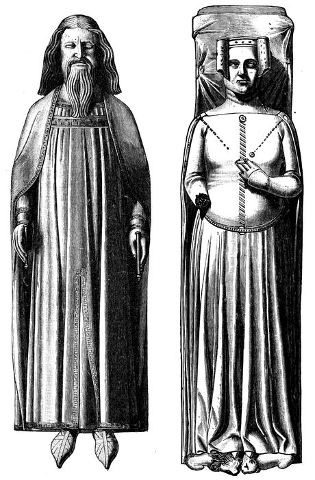 Effigies of Edward III. and Queen Philippa; from their tombs in Westminster Abbey